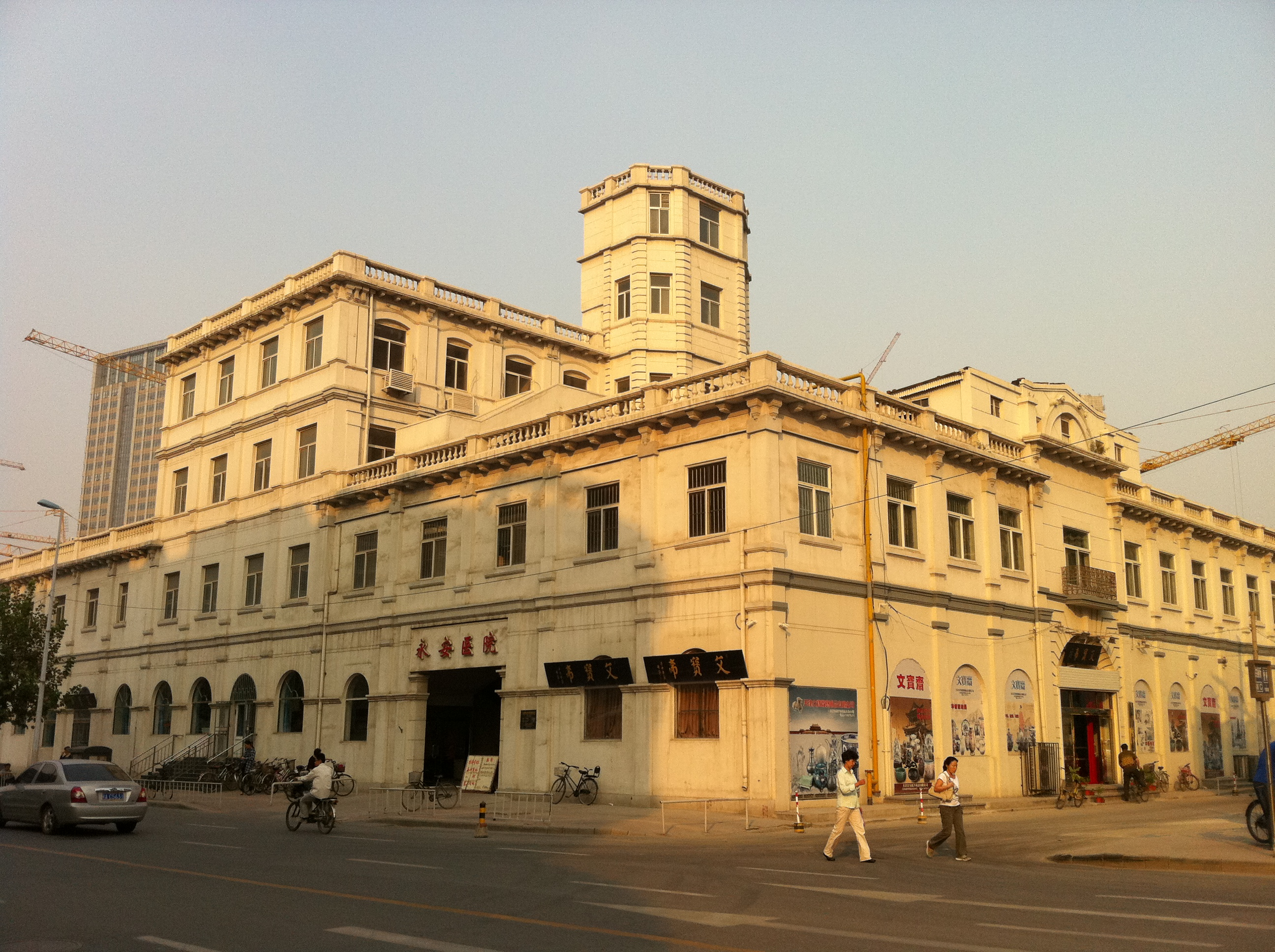 Former Yu Qing Bathing Pool, Heping District, Tianjin